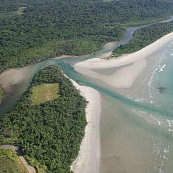 Estuário